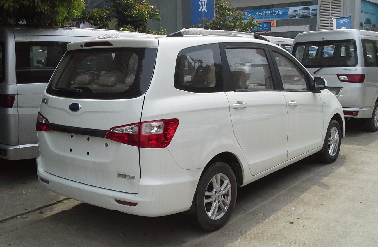 Karry K50 photographed in Wuhan, Hubei province, China.